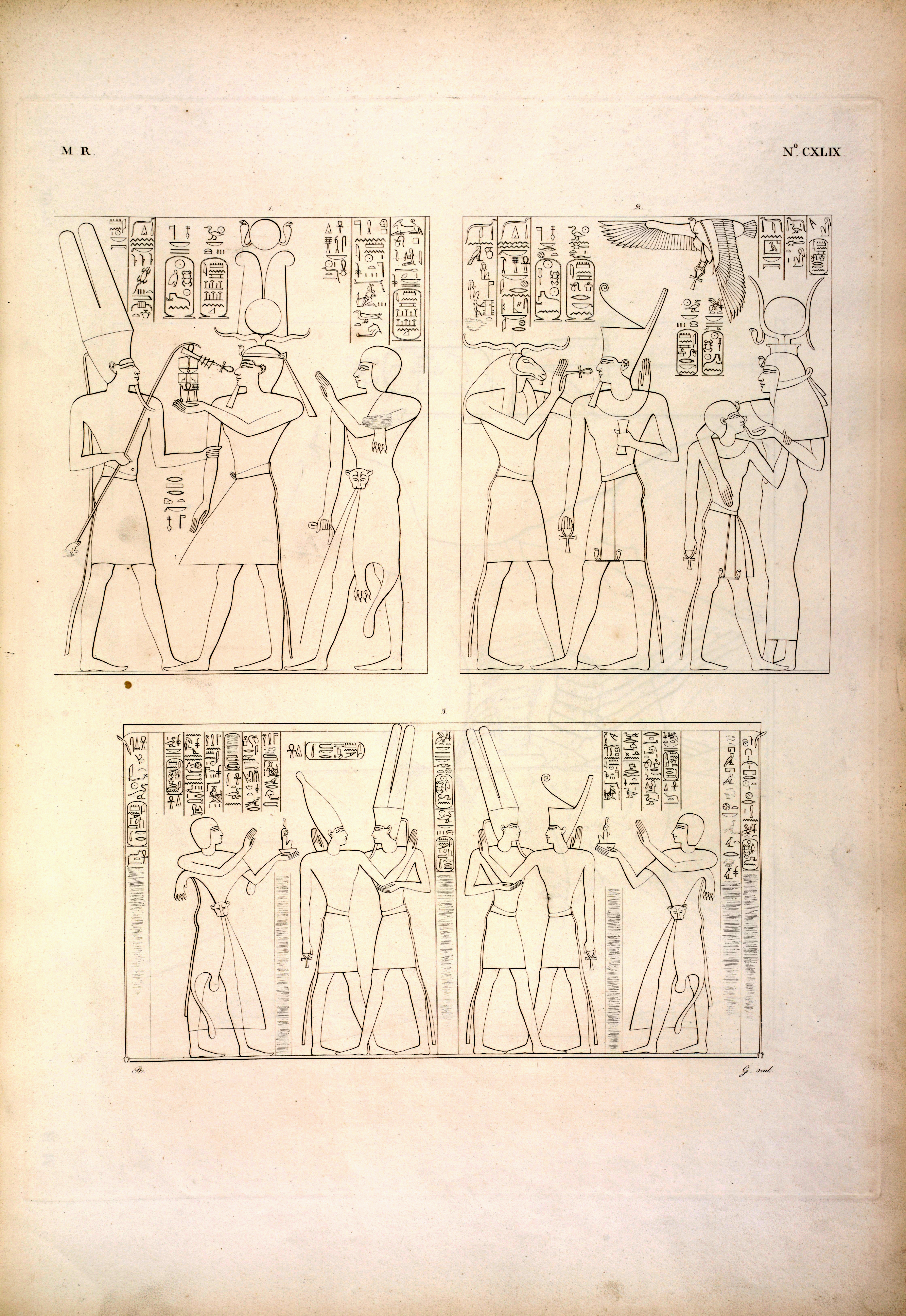 Keywords: Shoshenq I, King of Egypt [22nd Dynasty, 3rd Intermediate Period]; Osorkon I, King of Egypt [22nd Dynasty, 3rd Intermediate period]; Takelot II, King of Egypt [22nd Dynasty, 3rd Intermediate Period]; Khnum (Egyptian deity).